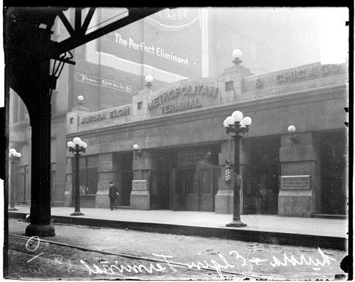 View of Metropolitan Terminal, used by the Metropolitan West Side Elevated and the Aurora, Elgin and Chicago Railroad, an electric interurban railroad, located on the west side of Wells Street (then 5th Avenue) between Jackson and Van Buren Streets in Chicago, Illinois.